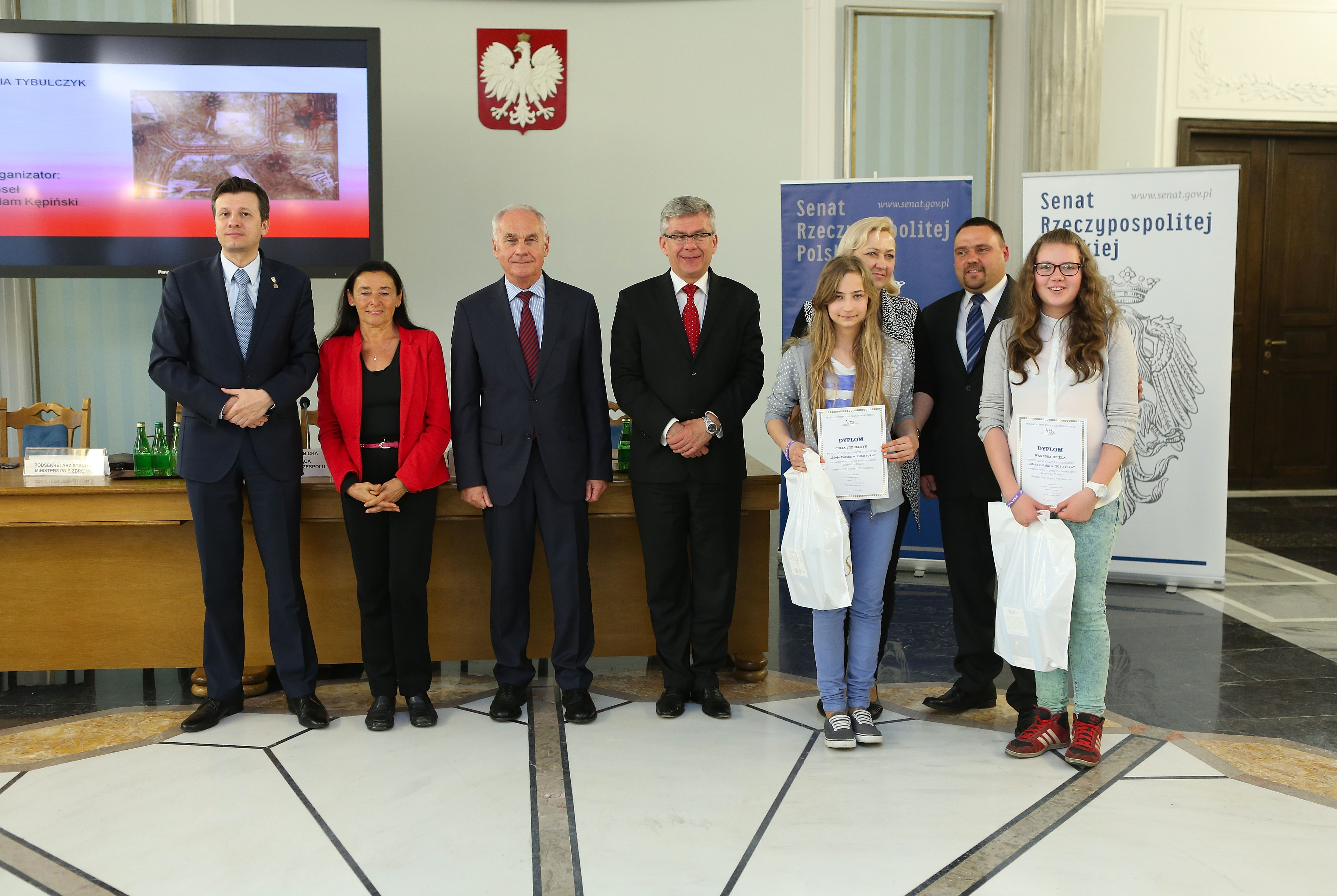 Announcing the results of the contest "My Poland in 2050". Column Hall in the Polish Sejm